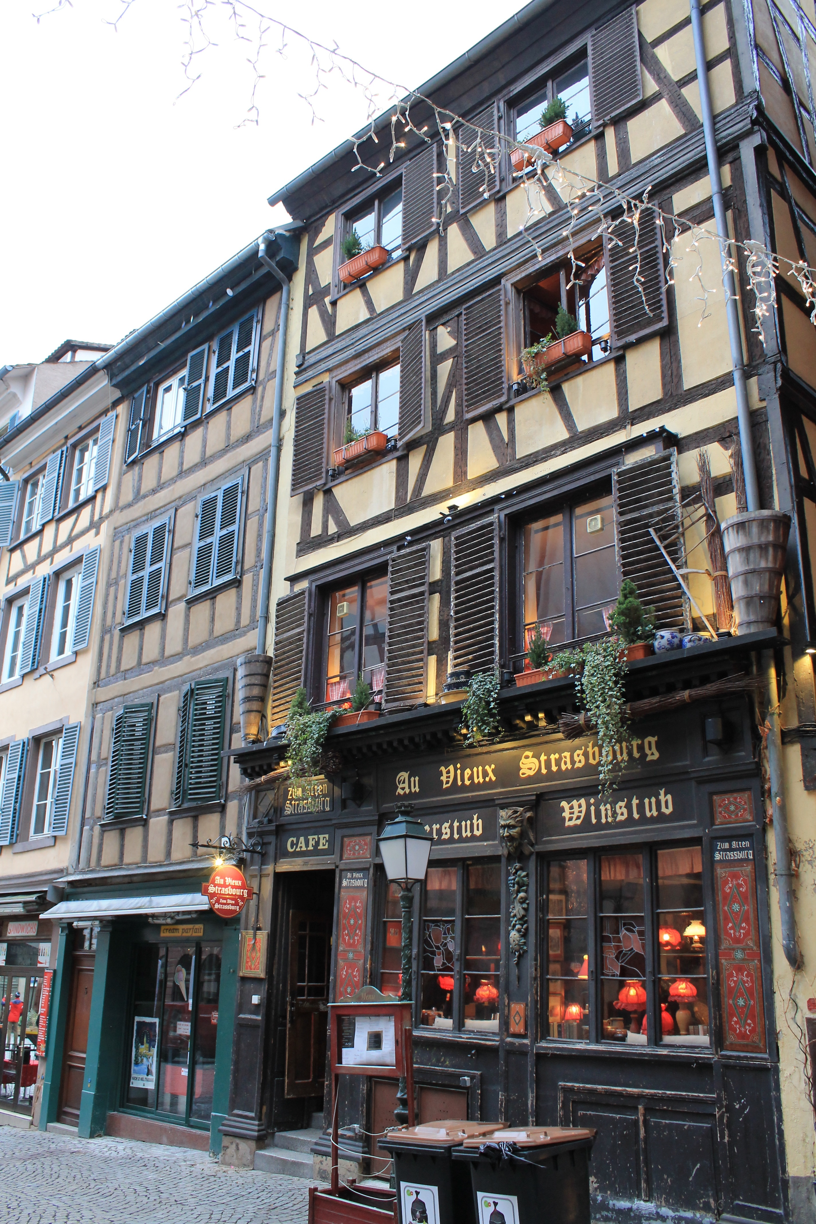 Strasbourg